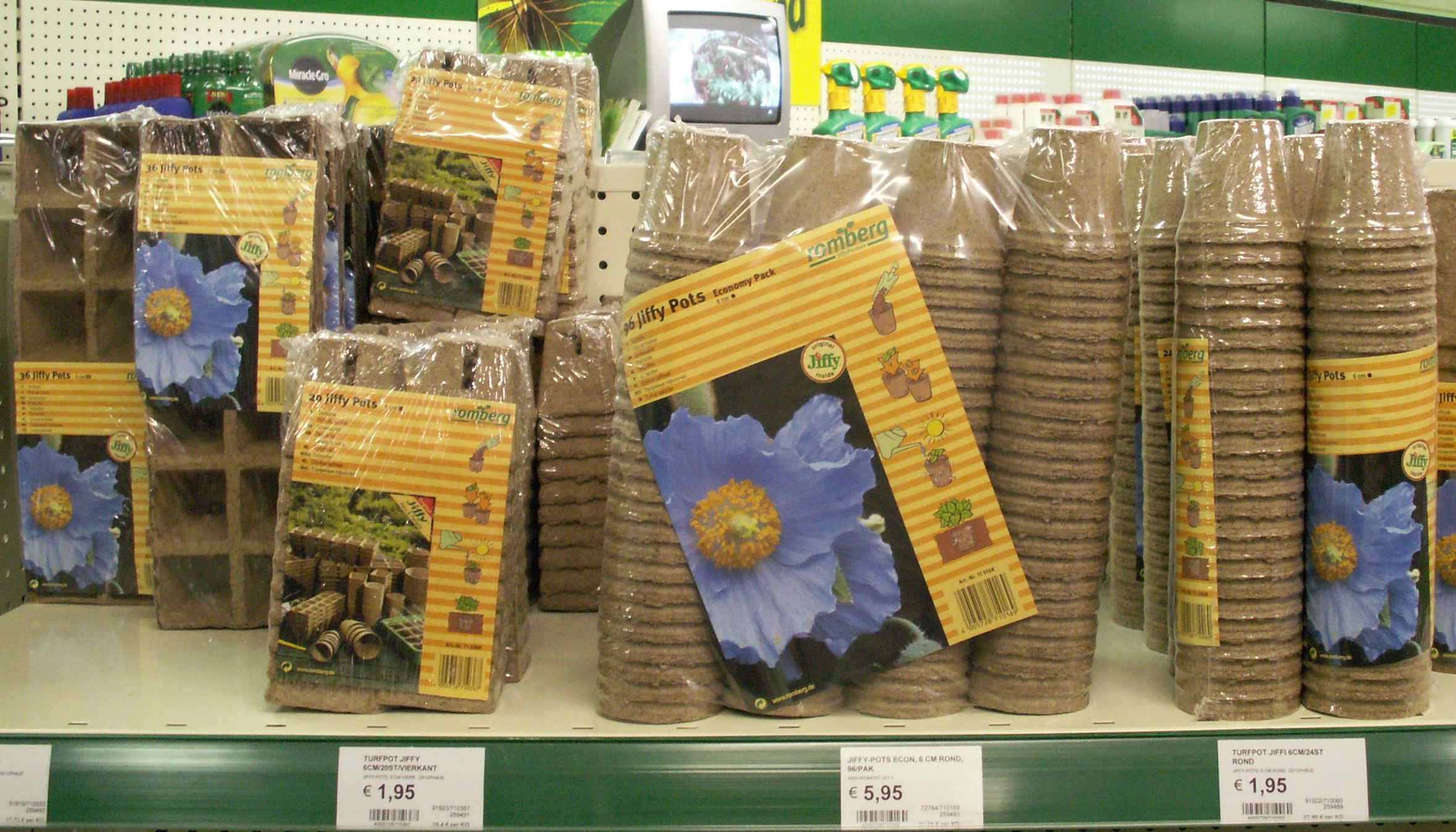 A picture of jiffy pots; which are biodegradable and allow plants to be planted without removing the pot.